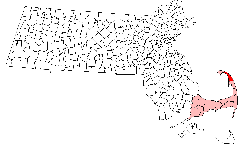 Map of Massachusetts towns with Truro highlighted